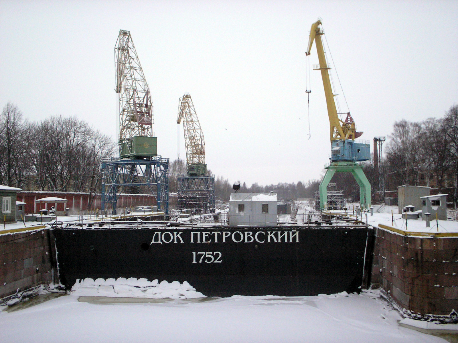 Kronstadt. Petrovsky dock in winter.